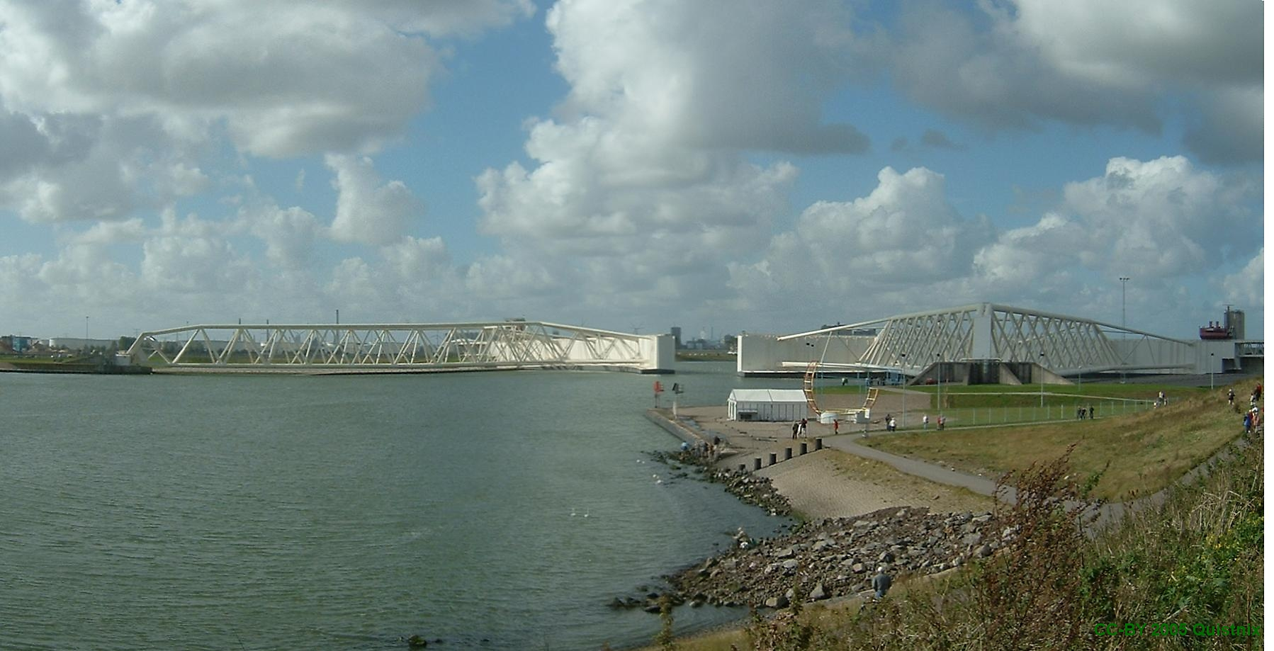 Closing of the Maeslantkering near Hoek van Holland, Netherlands.